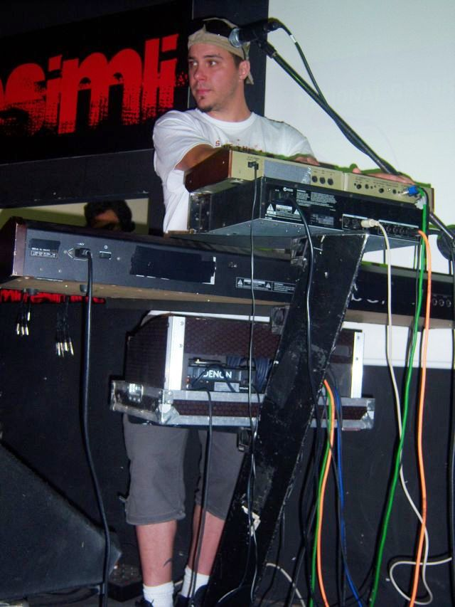 Serkan Çeliköz in Bursa.